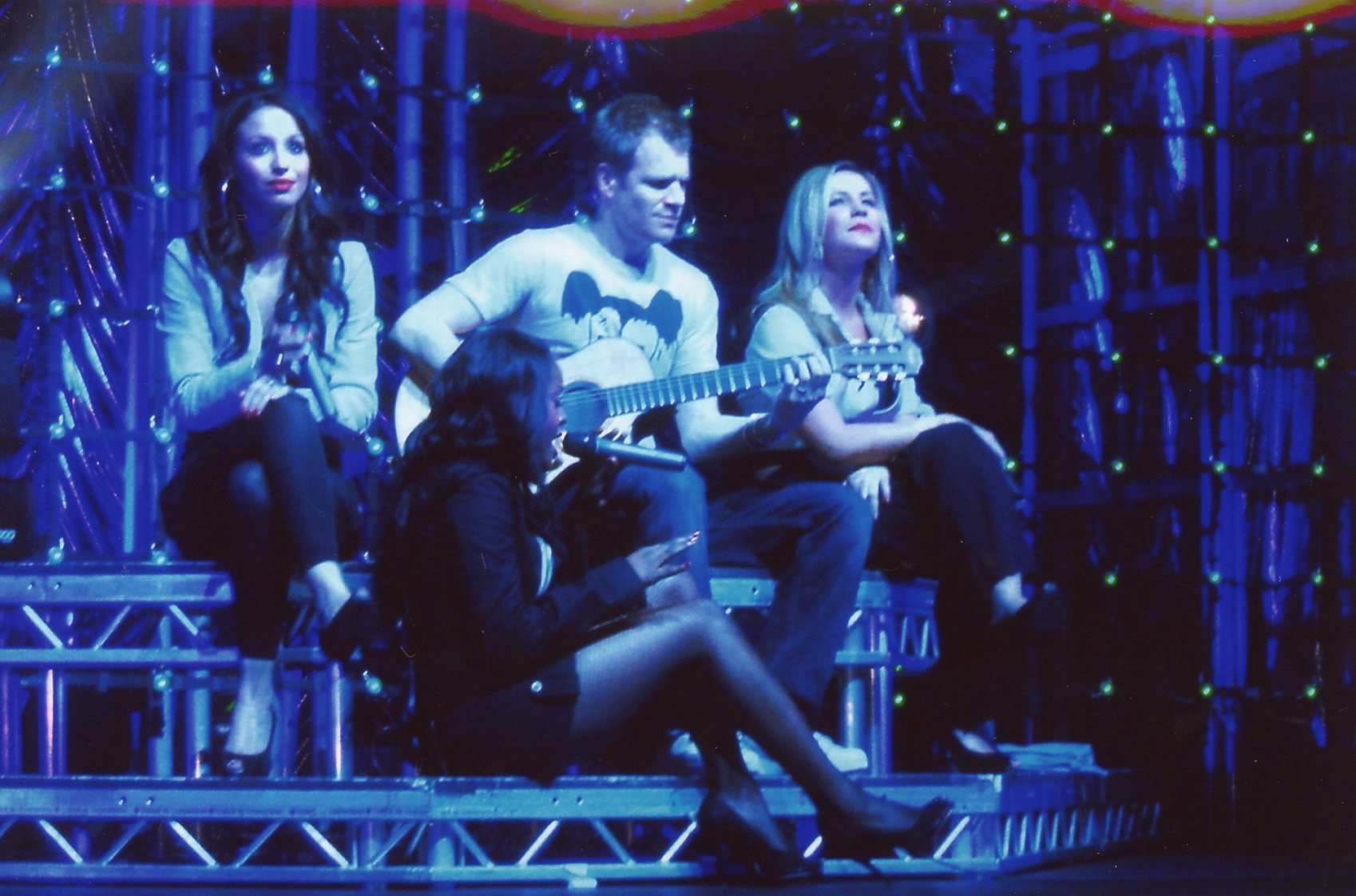 Sugababes - Hammersmith Apollo 110406